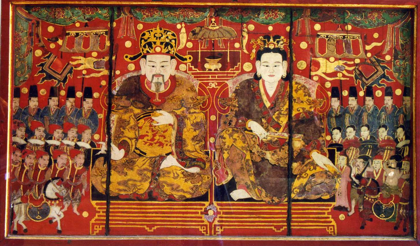 In the 19th century Vietnam Fine Arts had two distinguished tendencies: the royal art and the folk art. The painting Emperor Lý Nam Đế and the Empress is of the royal tendency showing how the people honoured Emperor Lý Nam Đế.